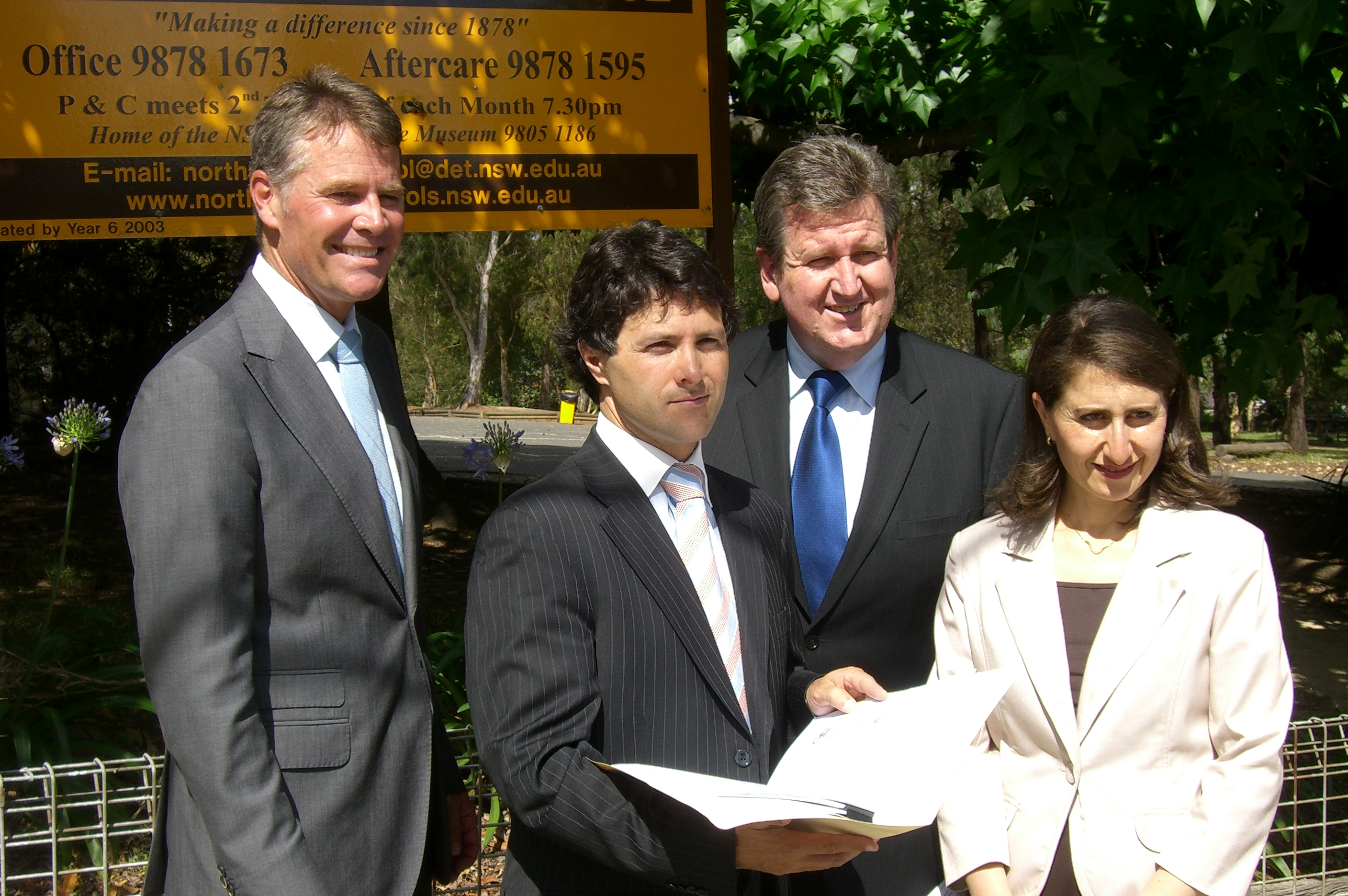 Member for Ryde Victor Dominello MP with Andrew Stoner MP, NSW Leader of The Nationals, Barry O'Farrell MP, NSW Opposition Leader and Gladys Berejiklian MP, Shadow Minister for Transport, discussing the NSW Government's cancellation of free school student travel.